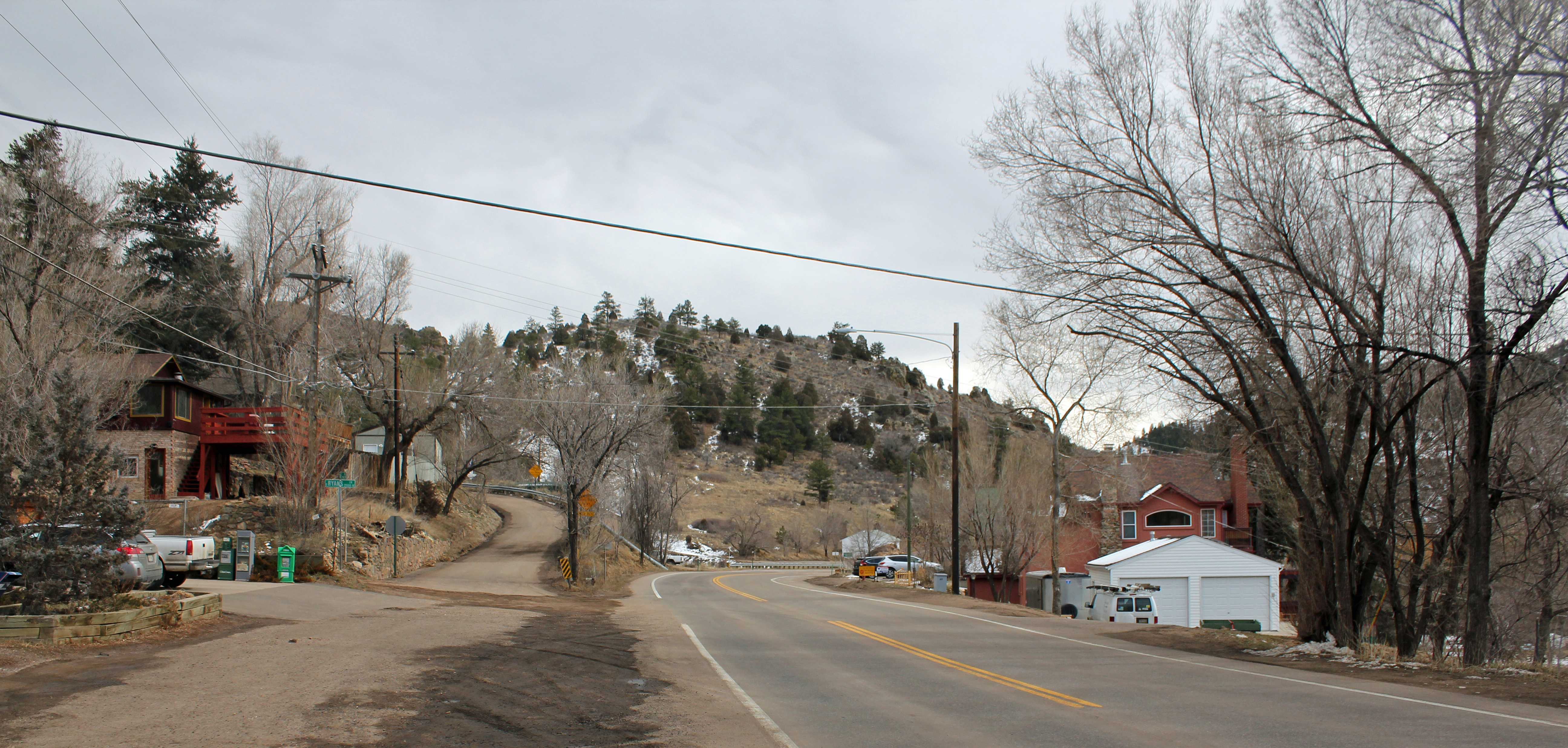 Idledale, Colorado, located in Jefferson County. The road is Colorado State Highway 74.